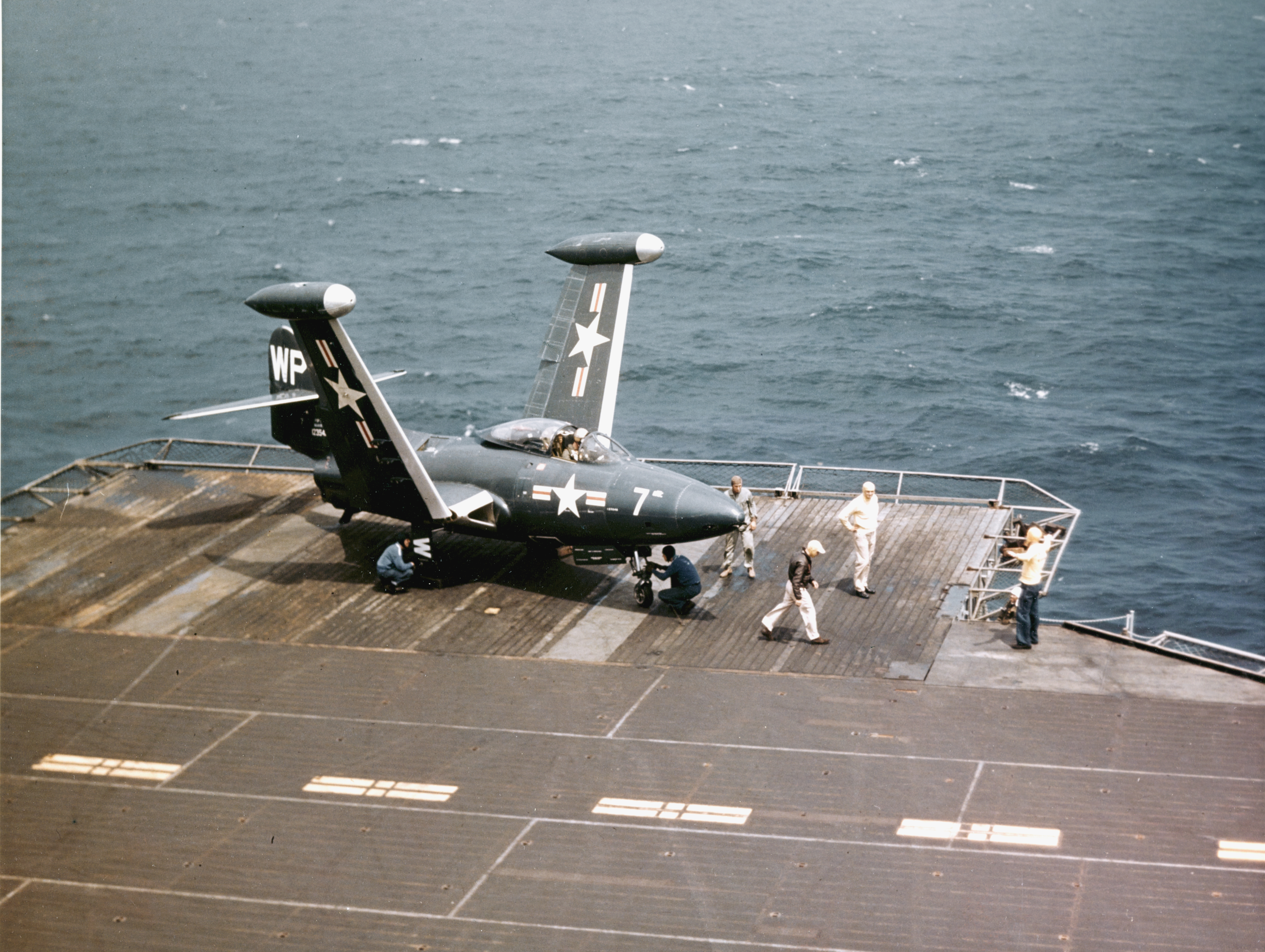 A U.S. Marine Corps Grumman F9F-2 Panther (BuNo 12354?) of Marine Fighter Squadron 223 (VMF-223) "Bulldogs" on the deck edge elevator of the aircraft carrier USS Franklin D. Roosevelt (CVB-42) in the early 1950s. As VMF-223 transitioned to the Grumman F9F-2 in July 1950, and FDR was in overhaul until 25 August 1050 before leving on a deployment to the Mediterranean Sea on 10 January 1951, the photo was probably taken between September and December 1950.